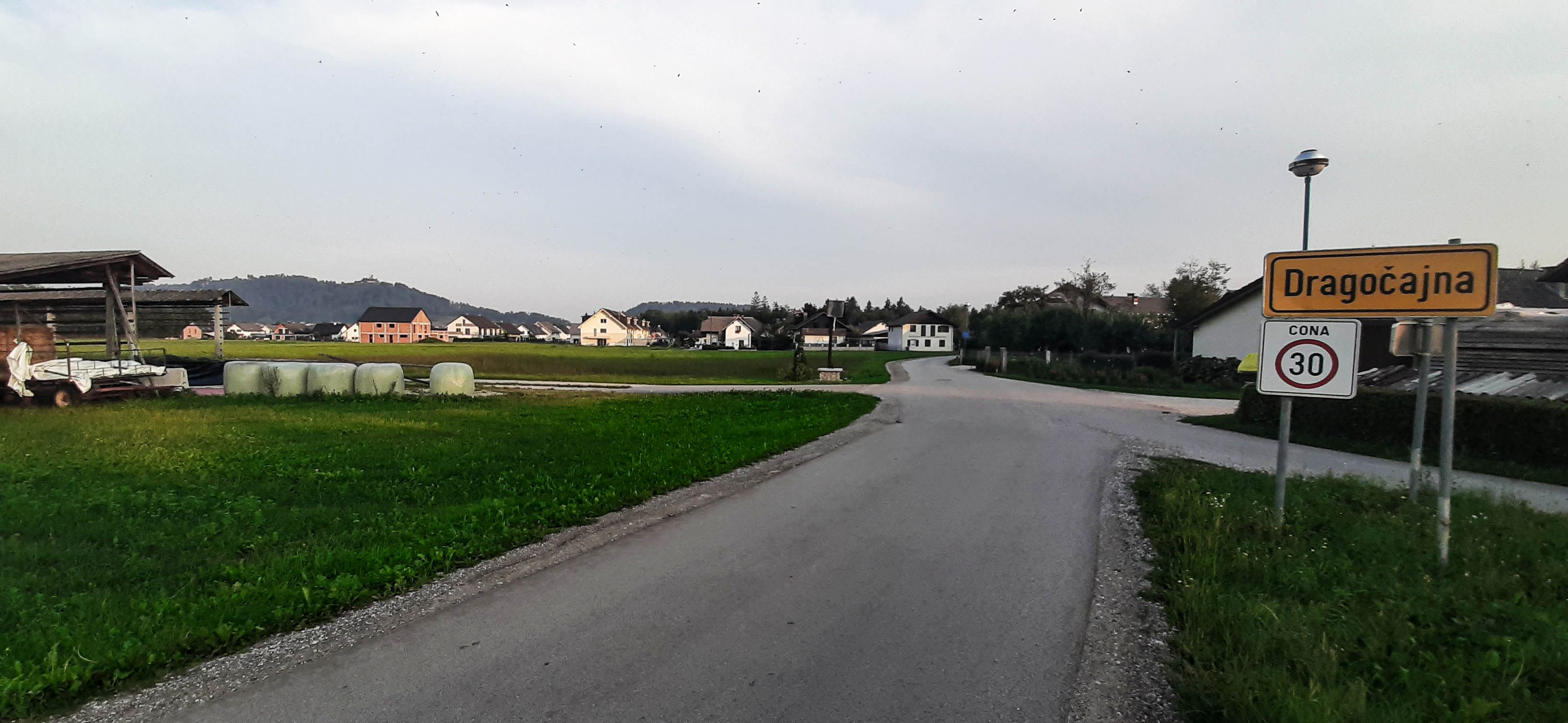 Dragočajna, a village in the Municipality of Medvode, as viewed from the northwest.